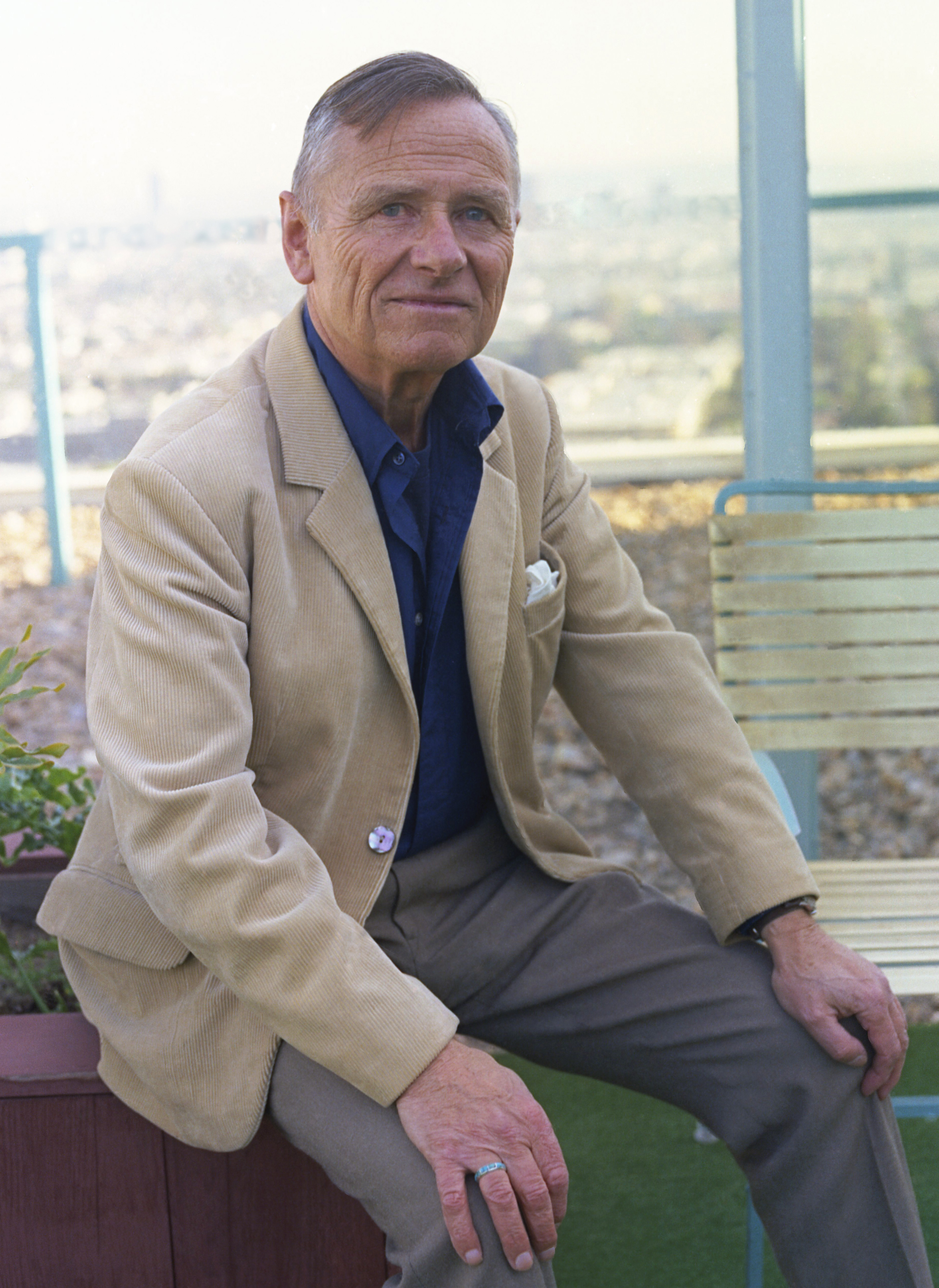 Christopher Isherwood in Los Angeles